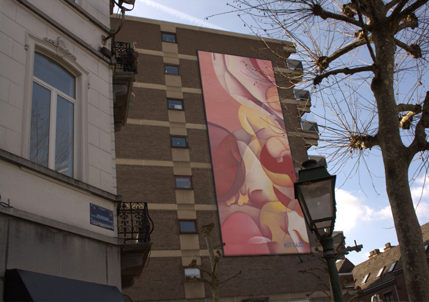 Art in public space - Guillaume Bottazzi's painting - 16 m x 7 m - Brussels, Place Jourdan, Belgium.